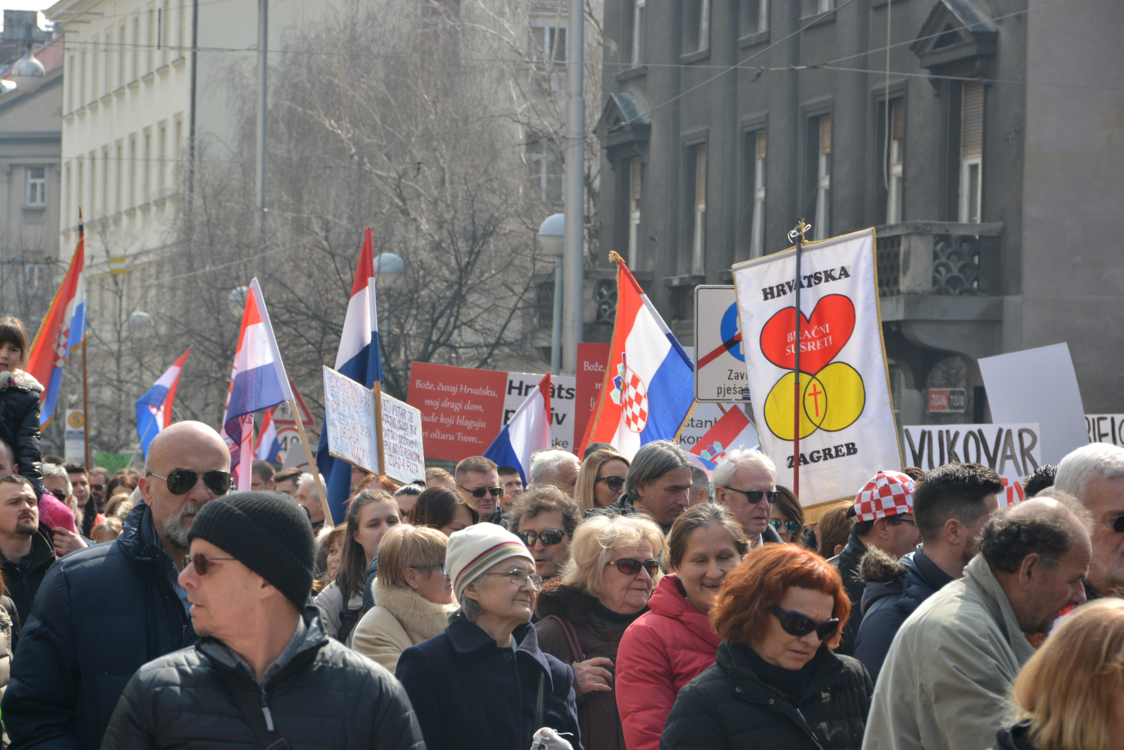 Željka Markić at the protest against the ratification of the Istanbul Convention, March 24, 2018, Zagreb.